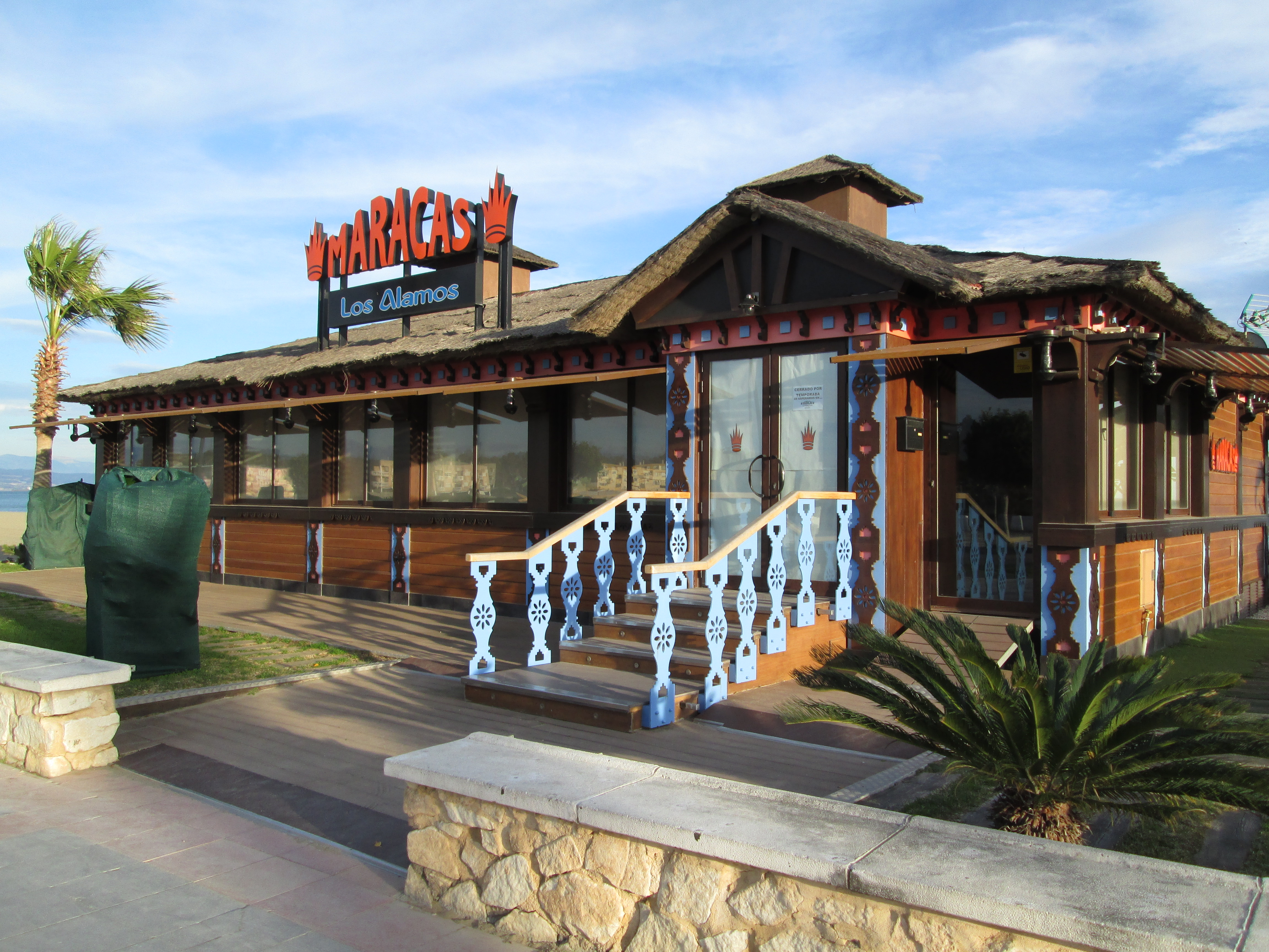 Maracas Los Álamos, Torremolinos